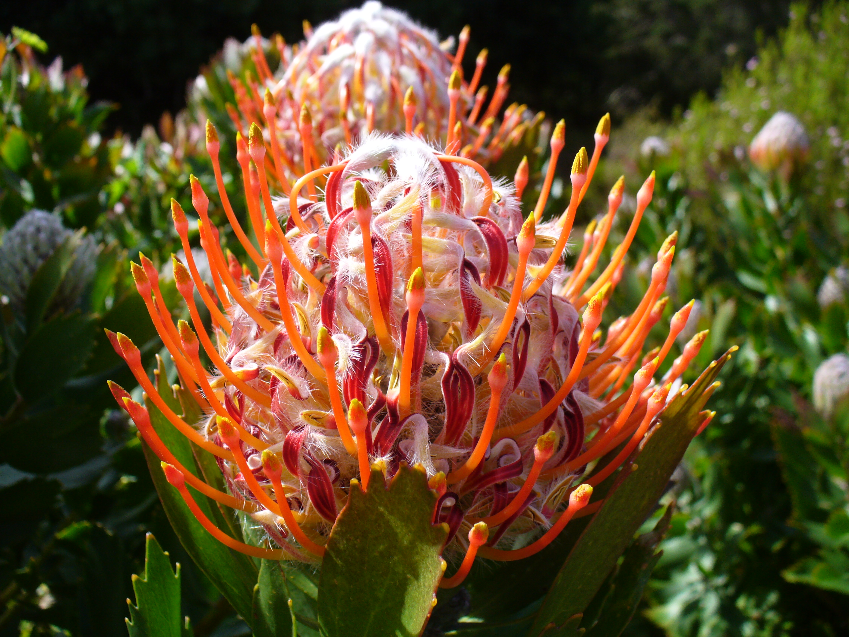 Outeniqua pincushion Kirstenbosch Gardens Cape Town